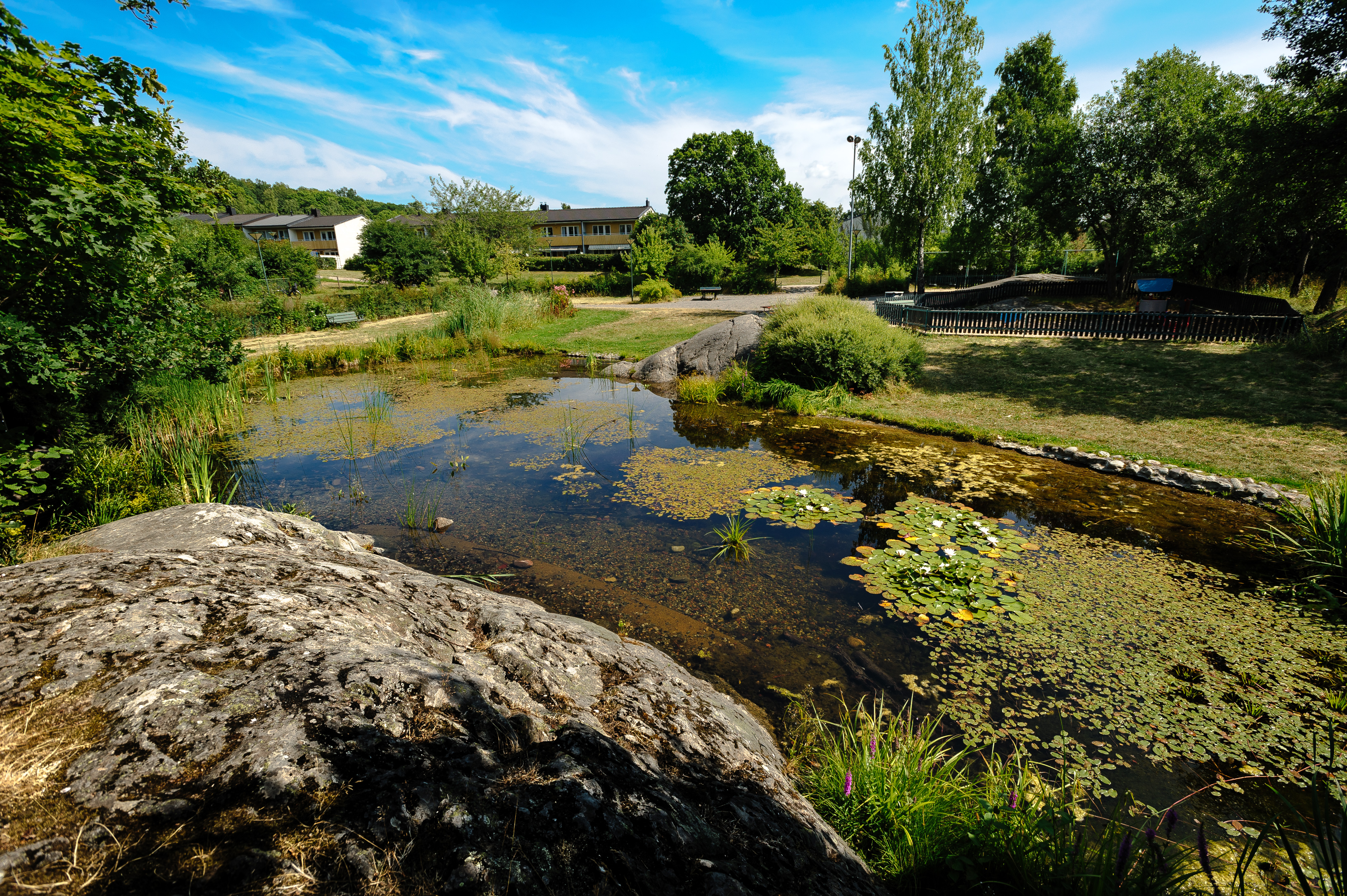 Pond and Park Interior